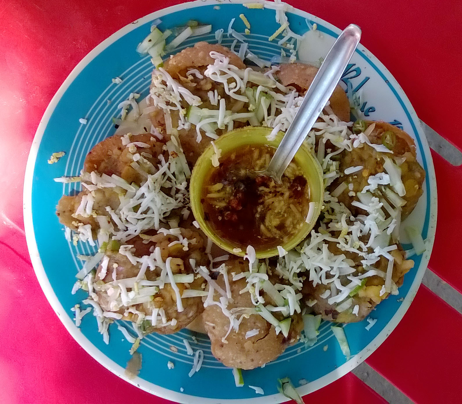 Fuchka SMS 01